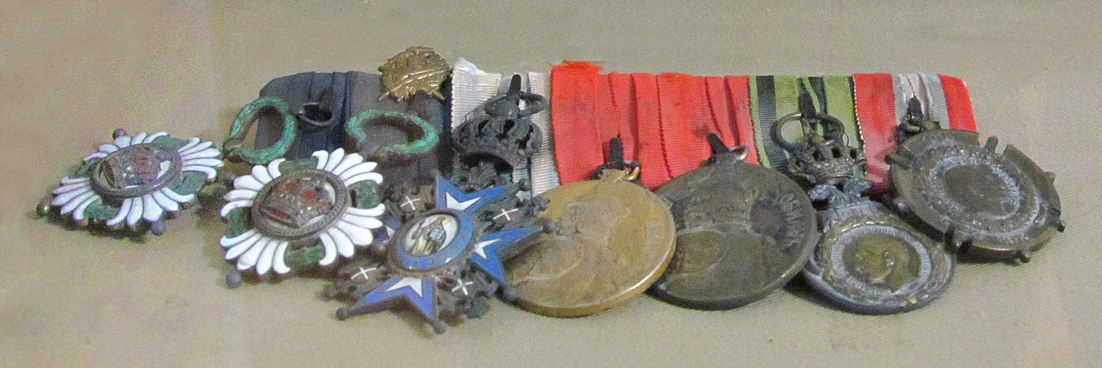 Serbian medals